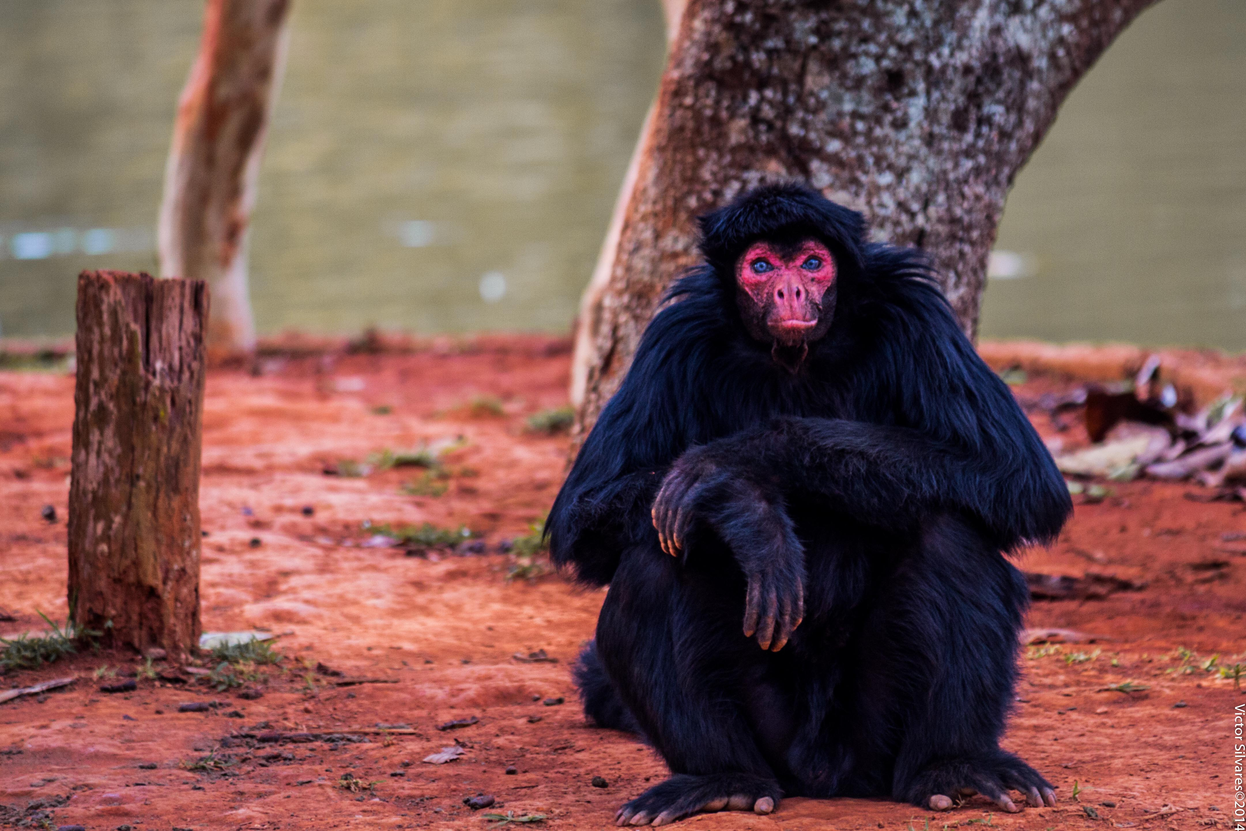 Red Faced Spider Monkey with a human-like pose.